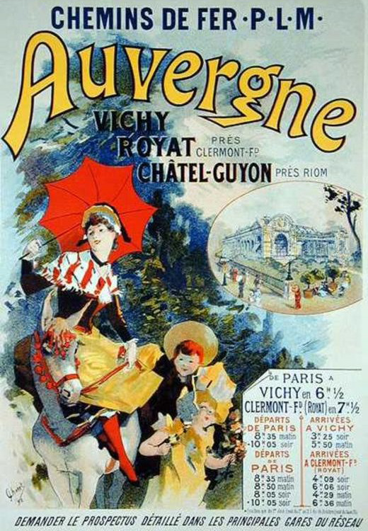 Publicity poster of the Railroad Paris-Vichy-Clermont by painter Jules Chéret for the PLM Compagny.